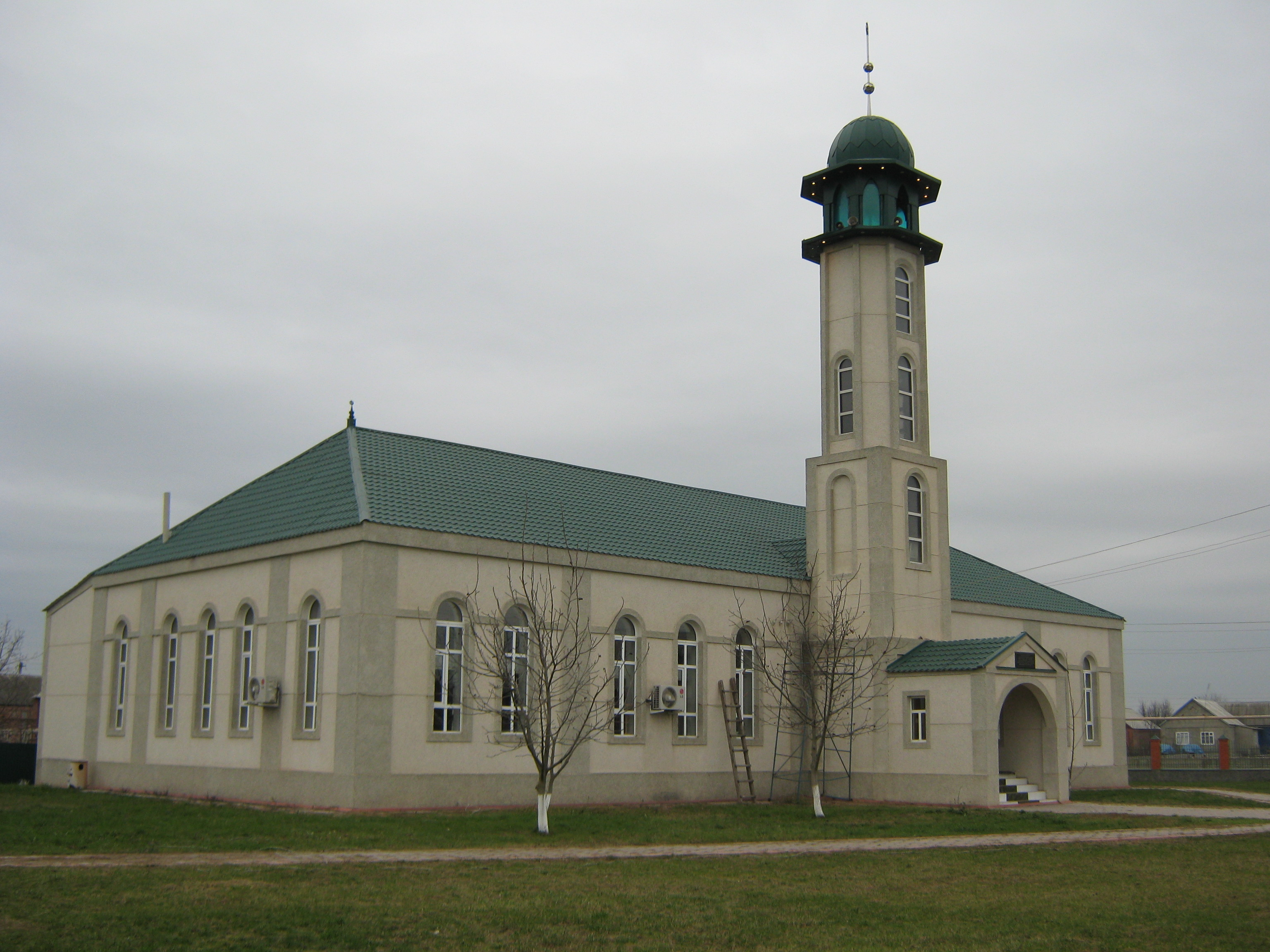 The mosque in the village of Dzhalka